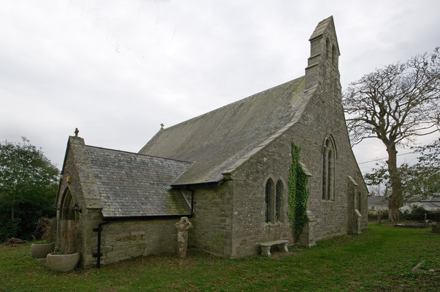 Photograph of St John's Church, Godolphin Cross (no longer used as a church)